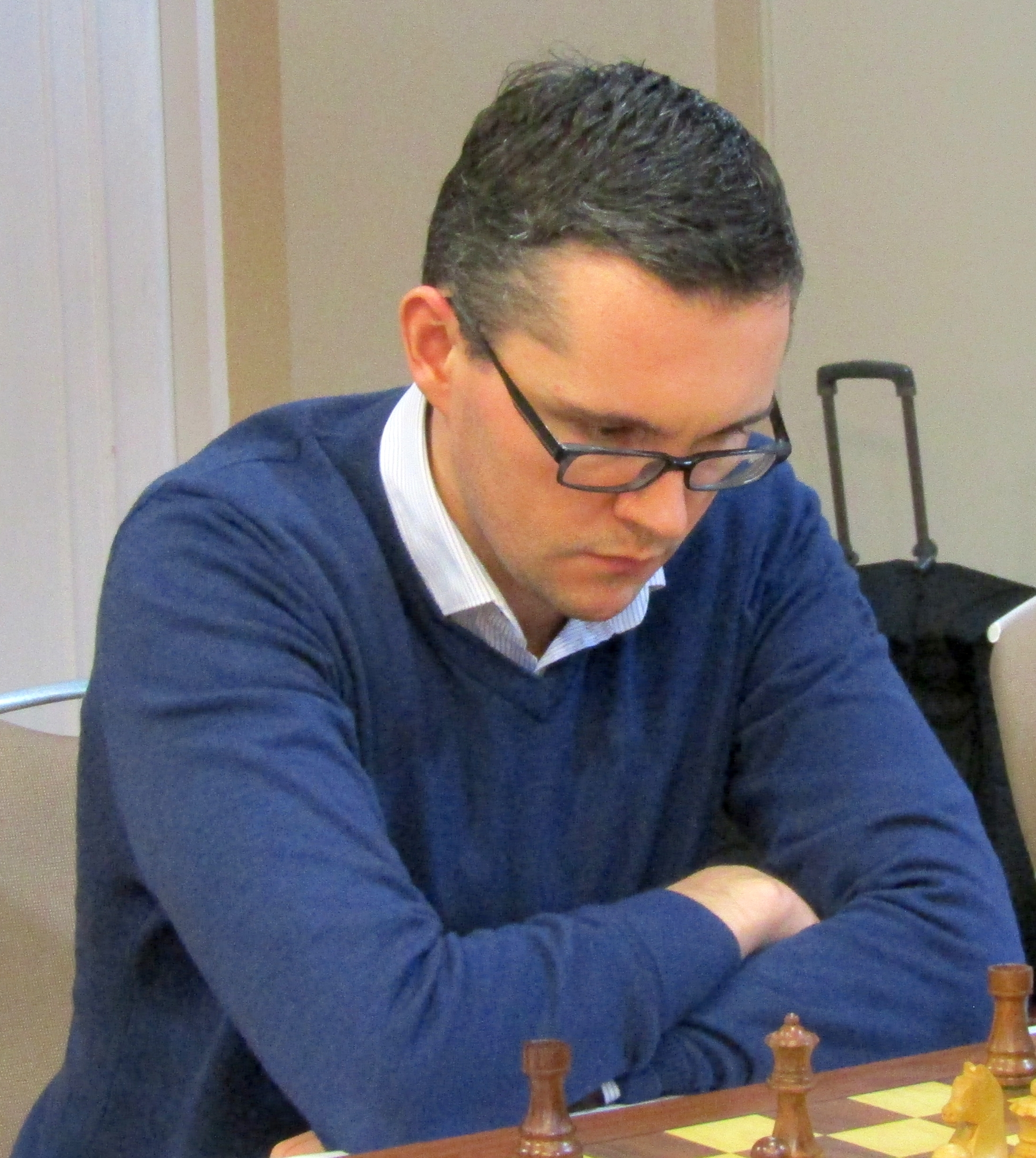 Sam E. Collins, chess player from Ireland, 2017